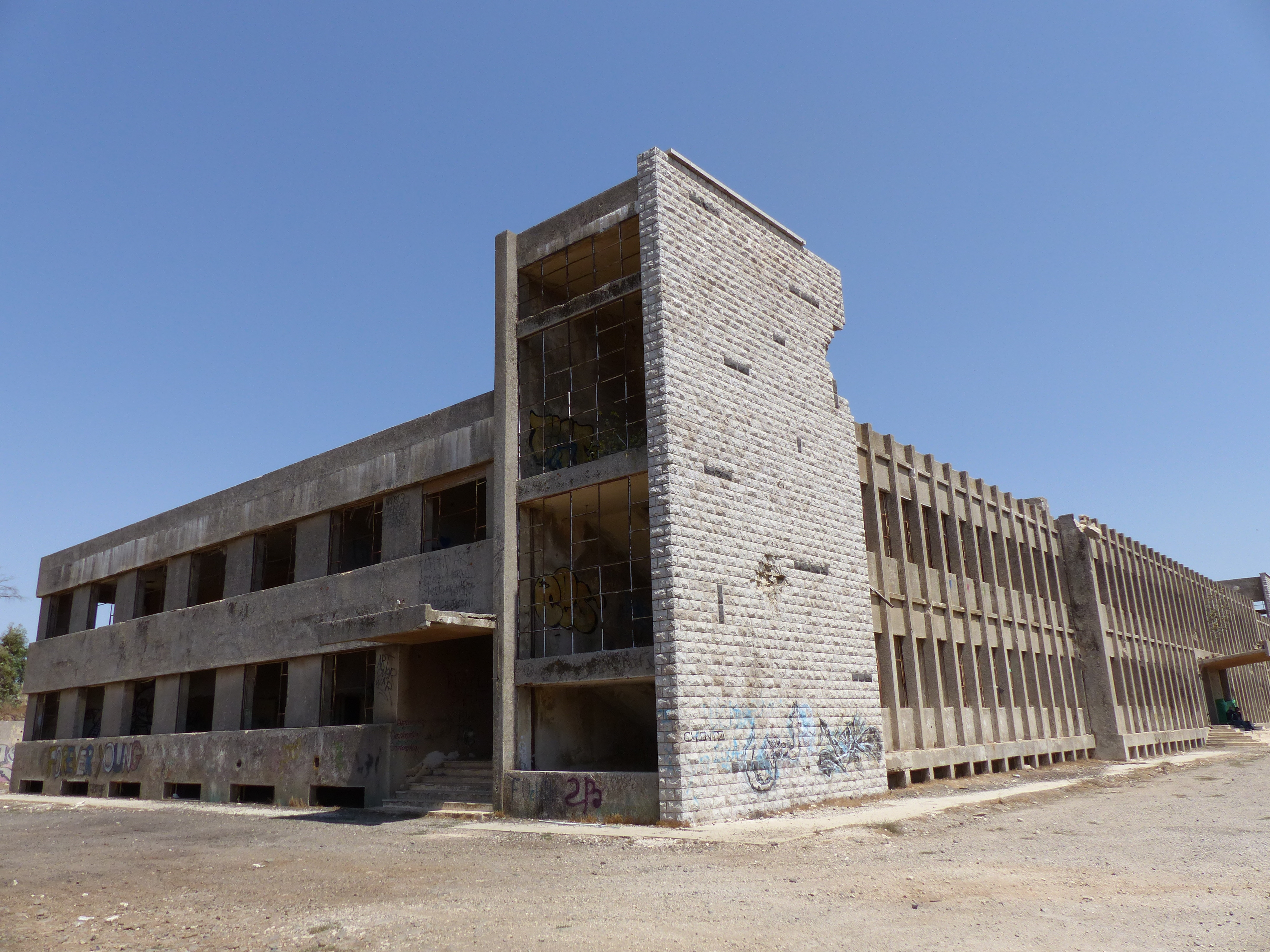 Syrian headquarters building in Quneitra, Golan Heights, 2017